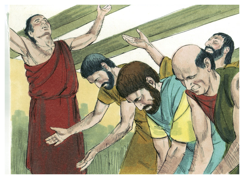 Biblical illustration of Acts of the Apostles Chapter 13